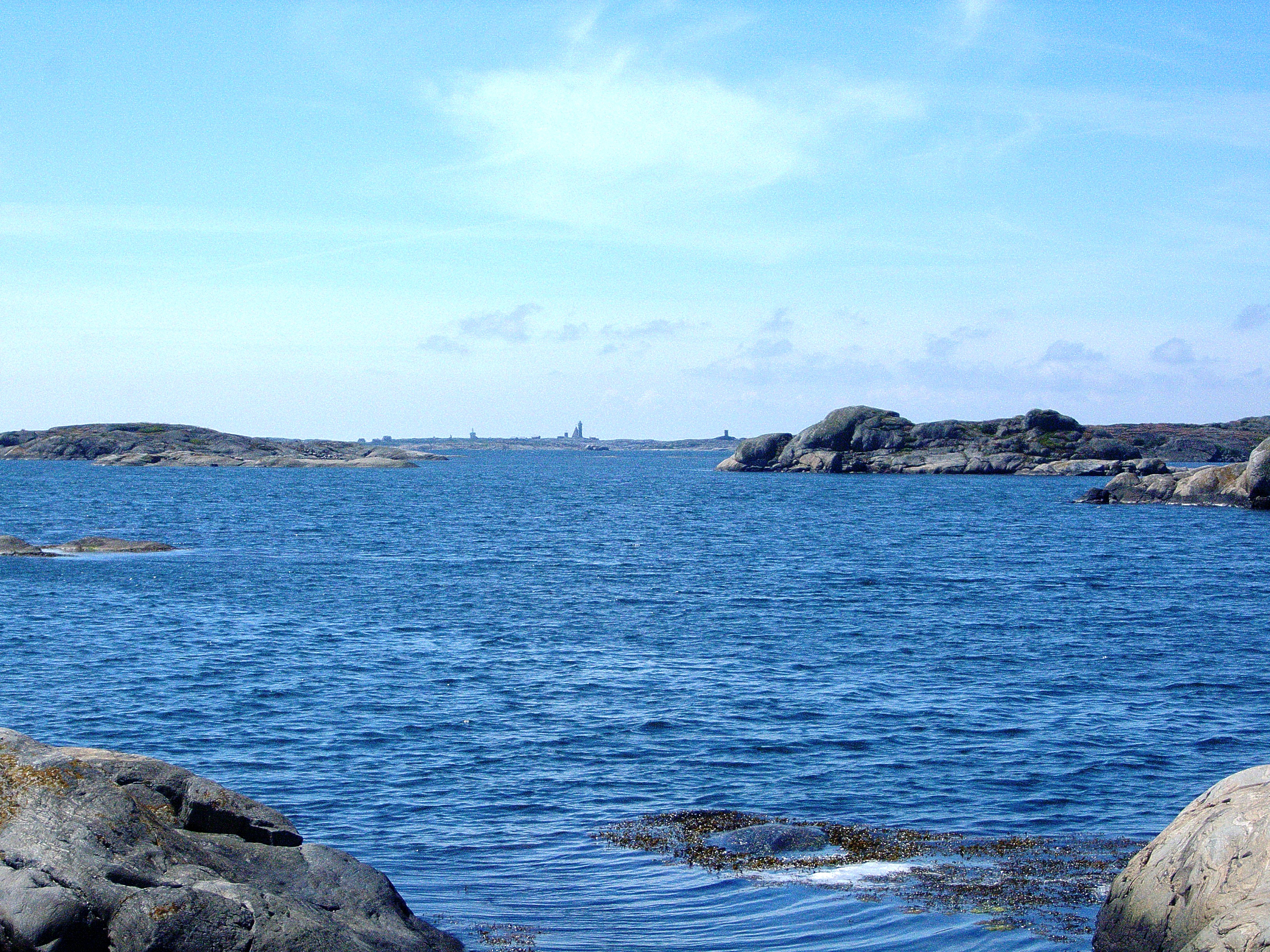 Vinga lighthouse